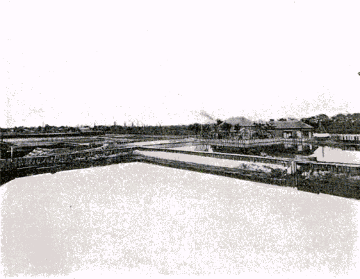 "View of A Turtle Farm, Fukagawa, Tokyo, Japan". Founded in 1866 by Mr. Hattori, this may have been the world's first turtle farm. The species raised was the Chinise soft-shelled turtle Pelodiscus sinensis.